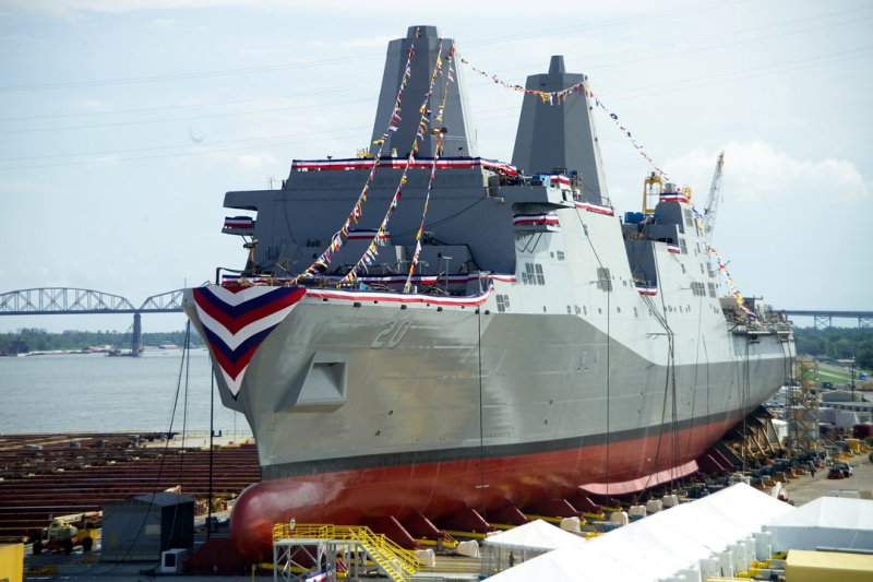 Green Bay (LPD-20) ready for launching, 13 November 2004[sic], Grumman Ship Systems, Avondale, LA., US Navy photo. Clint Ellis GSMC (SW) USN